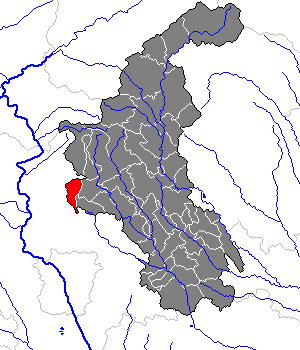 This map shows the area of the Gemeinde (municipality) Neudorf bei Passail in the Bezirk (district) Weiz, Styria, Austria.